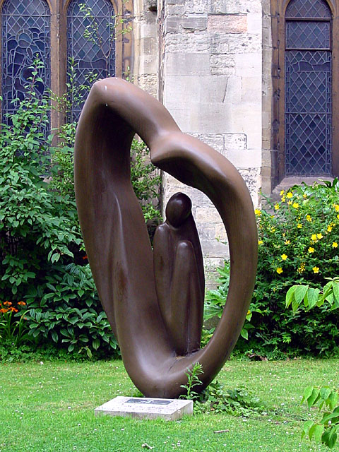 Refugee, Bristol Cathedral. This statue - Refugee was created by Naomi Blake, and is dedicated to the victims of racial prejudice. It is within the grounds of Bristol Cathedral.